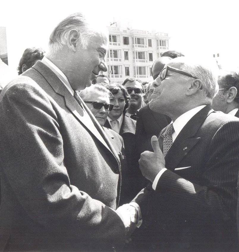 Tunisian President Habib Bourguiba (r) with French interior Minister Michel Poniatowski in Monastir in 1976. Tunisian ambassador in France is seen at the left.